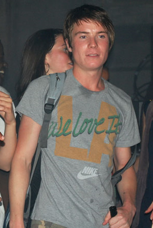 Actor Joseph Dempsie On The Stage in Skins Party 2007.